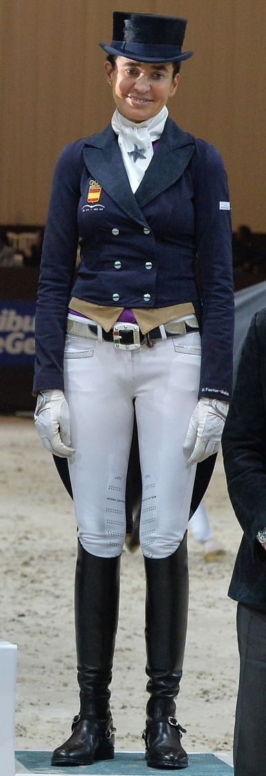 Grand Prix Freestyle, CDI 4* CHI Geneve 2016: Prizegiving ceremony – Beatriz Ferrer-Salat